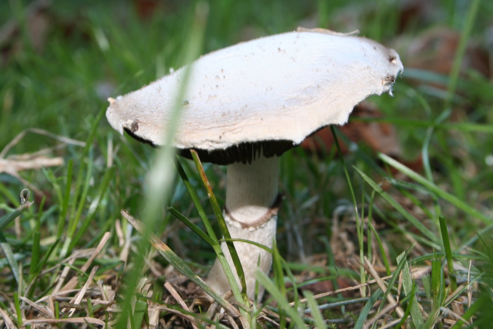 Agaricus campestris in a French garden near Paris. Identification note: Spores 7×4.5 microns.